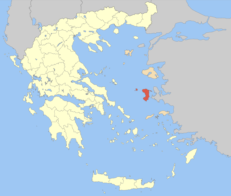 Locator map of Chios prefecture (Νομός Χίου) in Greece